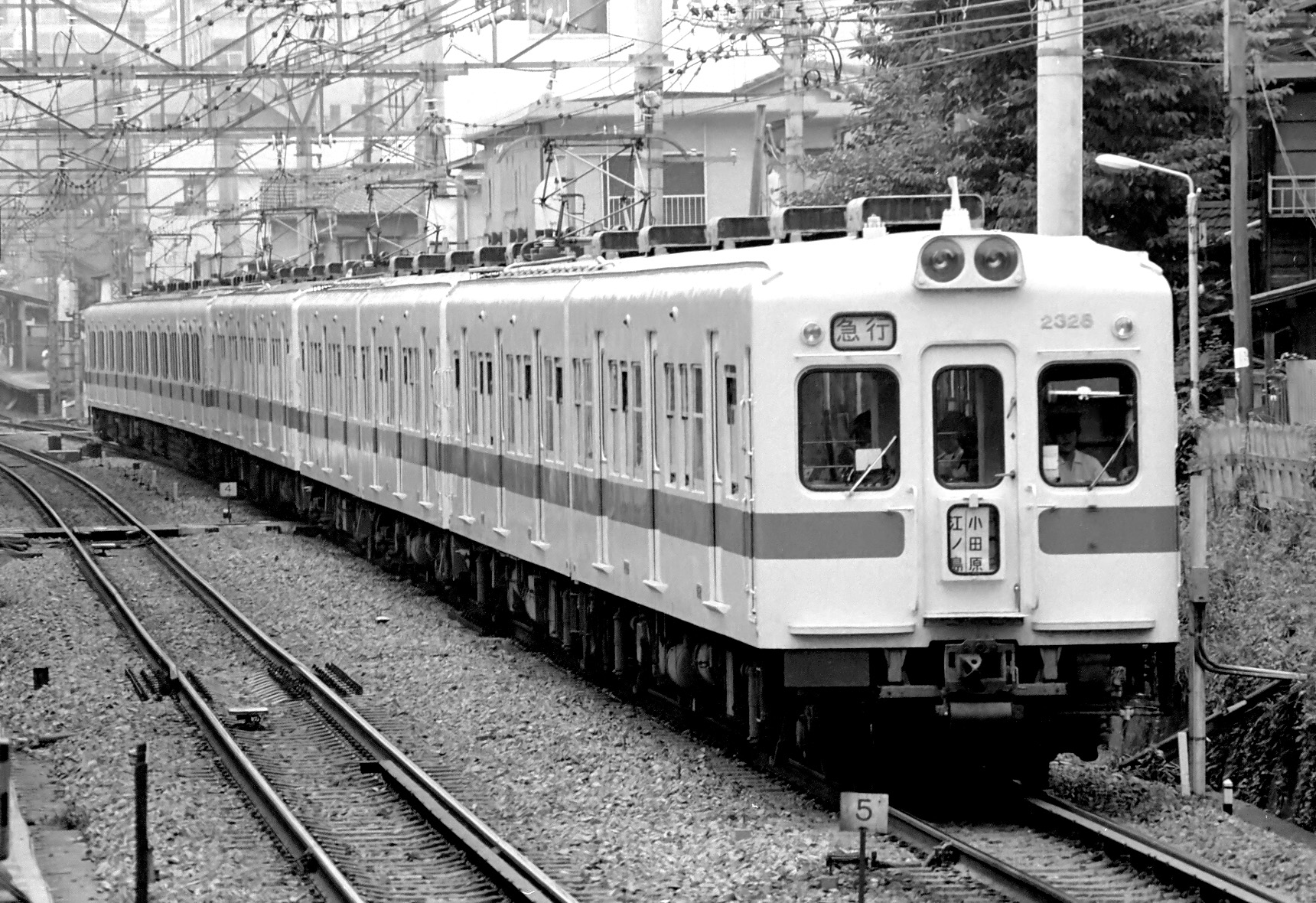 Odakyu Electric Railway 2320 type EMU coupled the other type one on the express service,running between Minamishinjuku and Sangubashi.